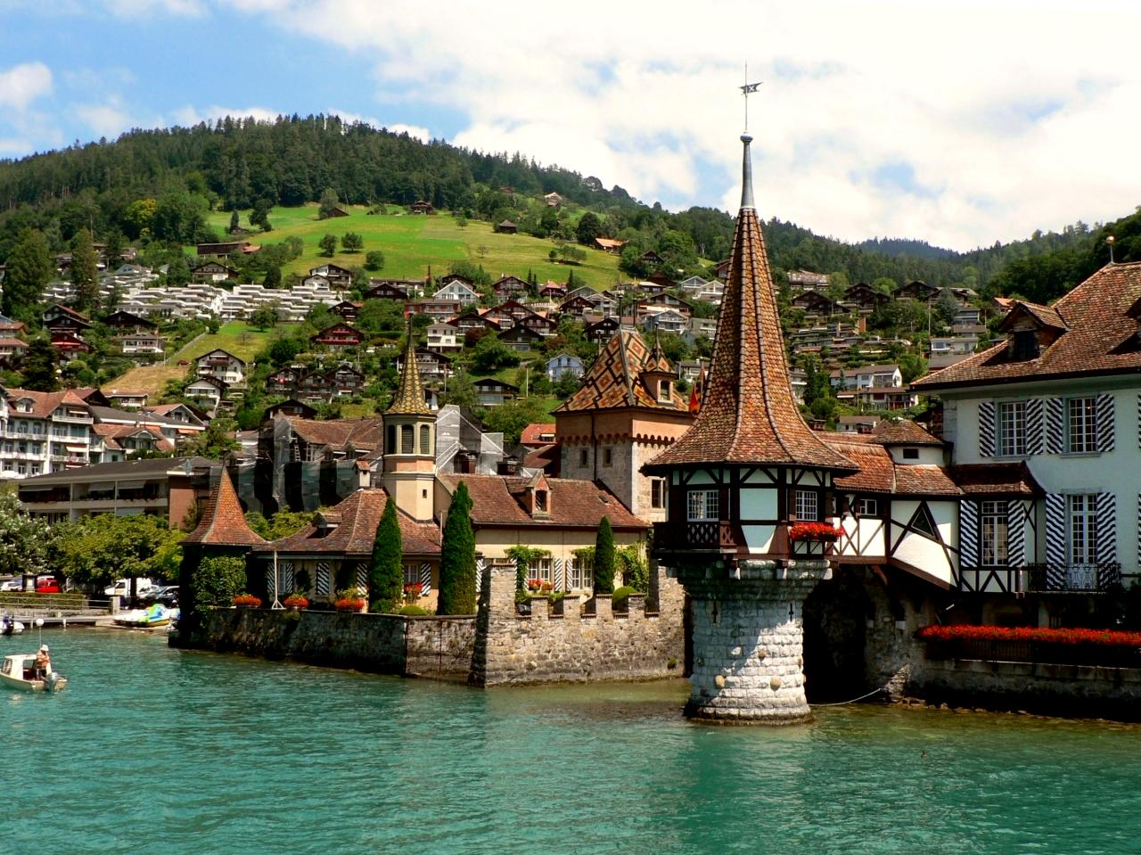 Oberhofen am Thunersee, Berner Oberland.